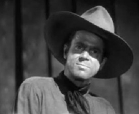 Cropped screenshot of Dan Duryea from the trailer for the film Along Came Jones